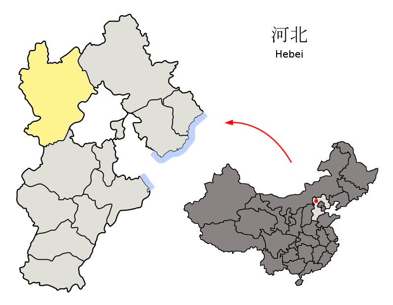 Location of Zhangjiakou Prefecture (yellow) within Hebei Province of China 简体